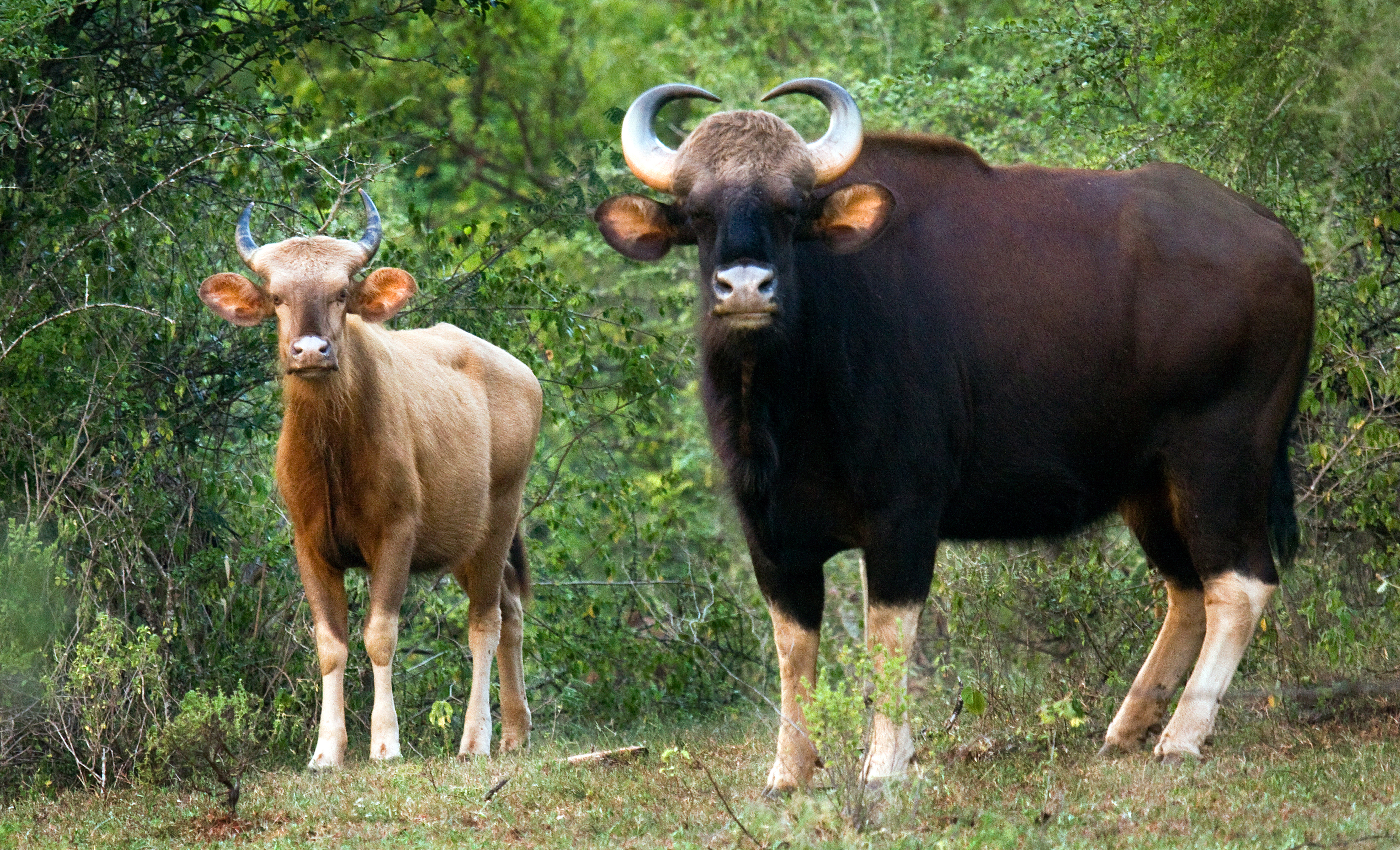 Manjampatti white bison or White Indian bison (Bos gaurus), "White" bison are very rare. This photograph is taken from Chinnar Wildlife Sanctuary. This picture was claimed as the "First clear Photographic evidence of white bison after seventy years"